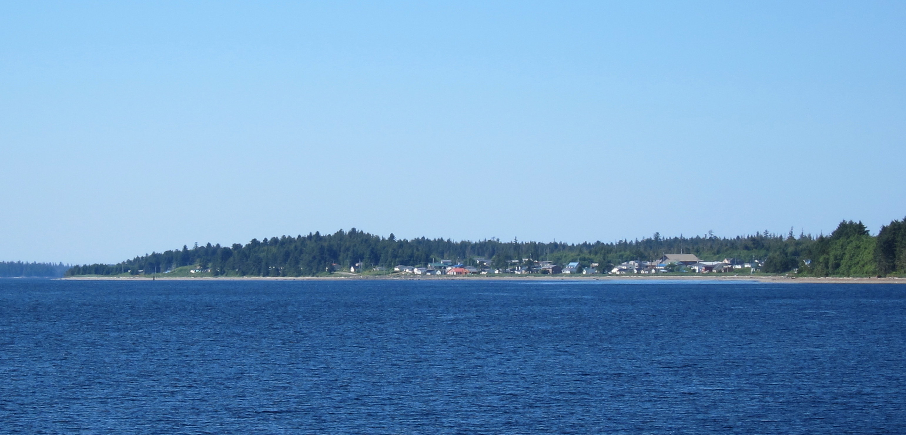 The settlement and Indian Reservation of Old Masset, Haida Gwaii, British Columbia, Canada